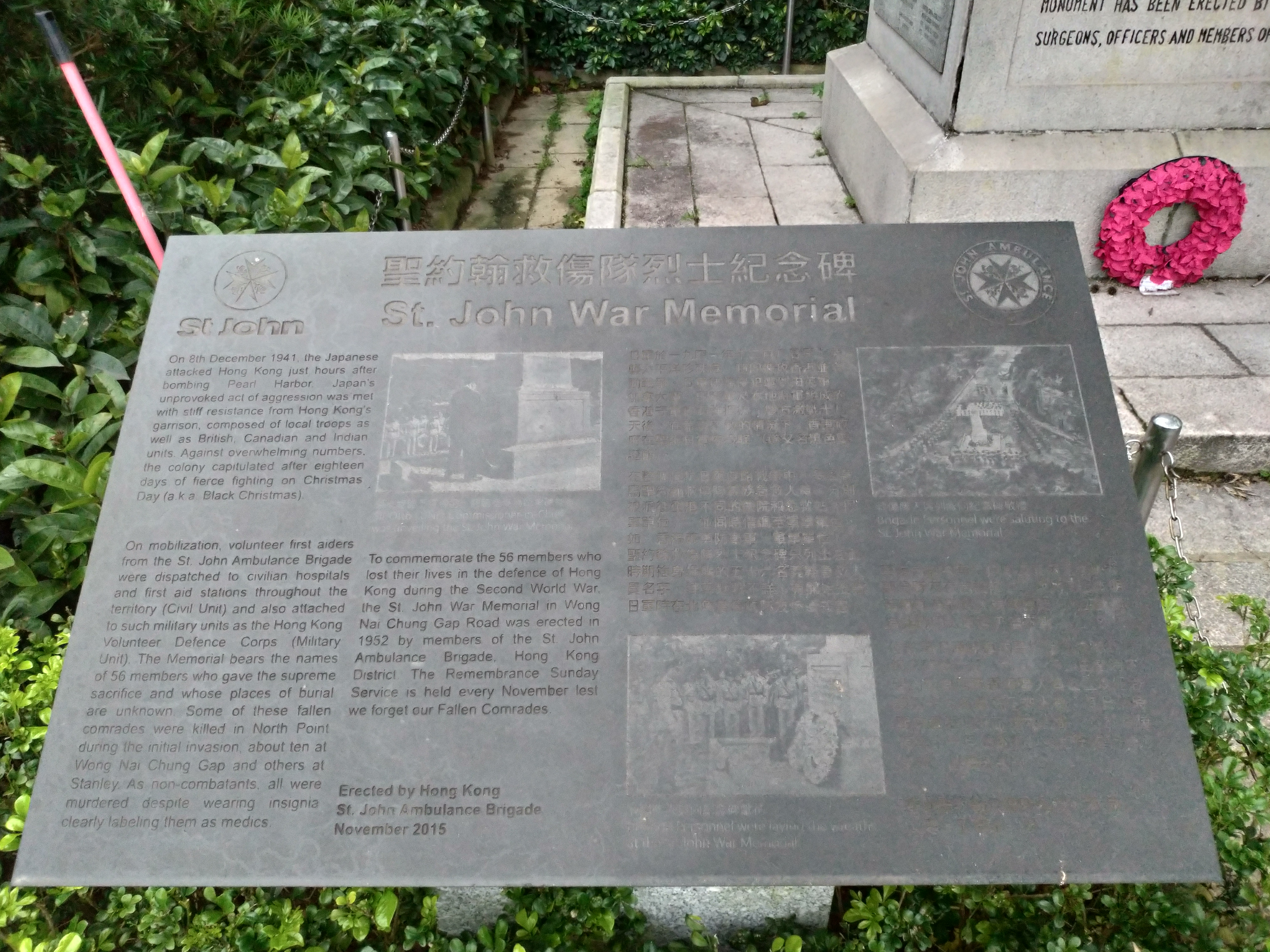 The memorial of St. John at Wong Nai Chung Gap on Hong Kong Island.